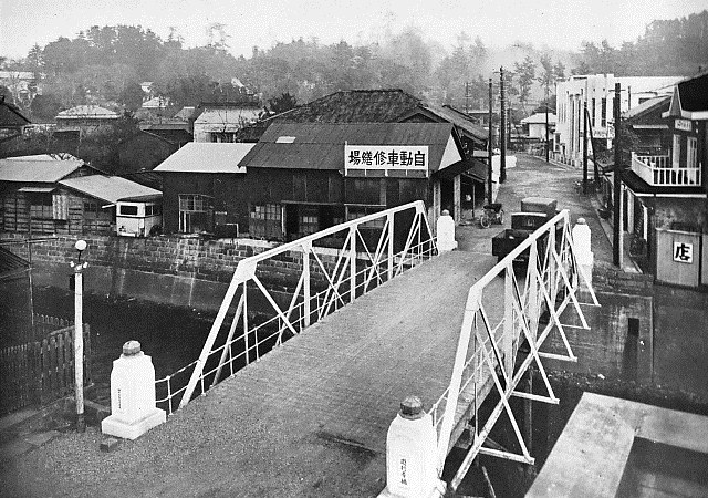 Fujisawa in 1930s